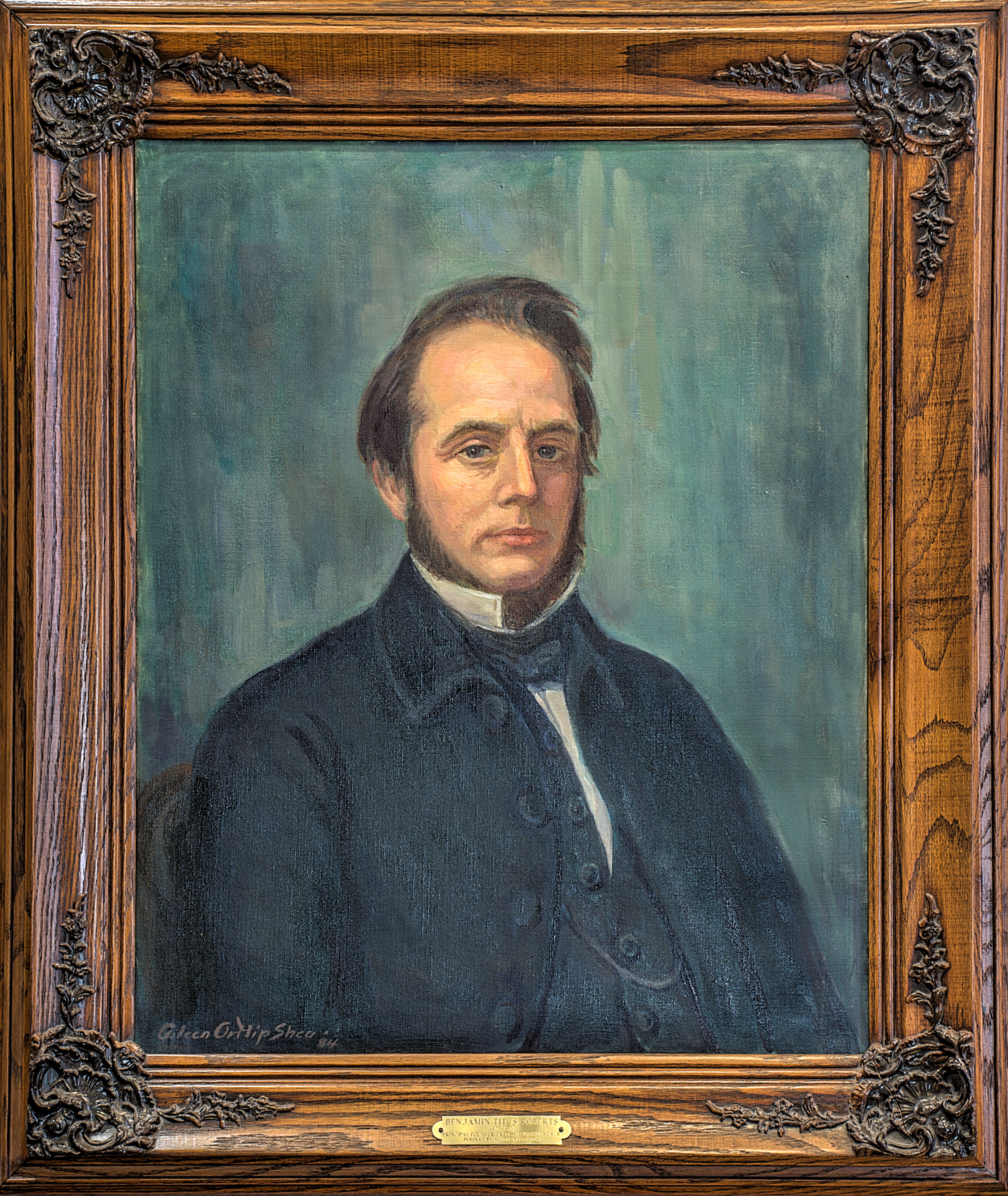 Benjamin Titus (B.T.) Roberts, 1823 - 1893. Founder of the Free Methodist Church